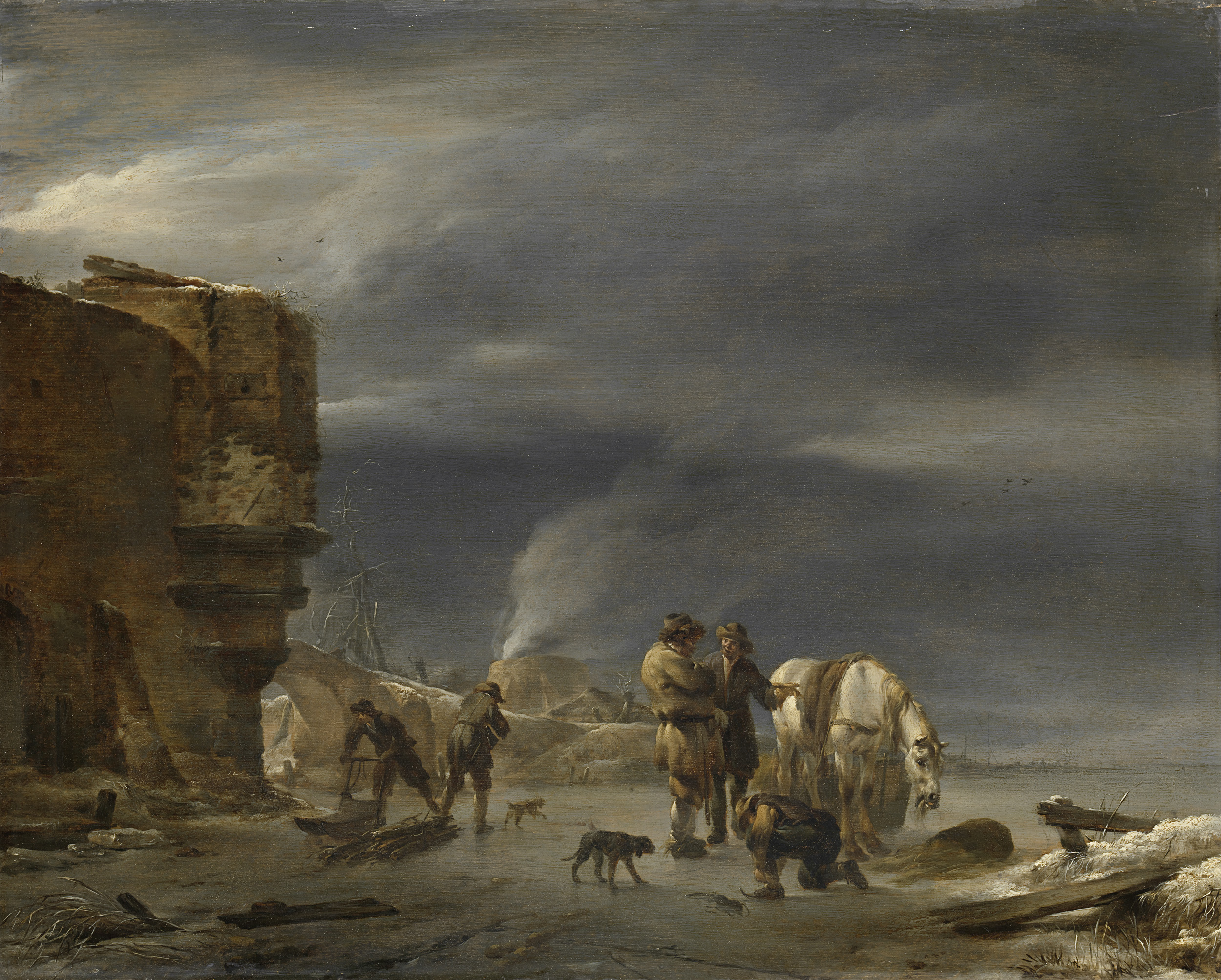 Winter landscape outside a town. Two men are standing next to a horse on the ice of a frozen moat. Possibly Pendant of File:Stadswal van Haarlem in de winter. Rijksmuseum SK-A-27.jpeg.